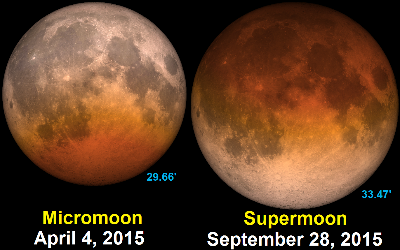 Compare simulated appearance and diameter of two lunar eclipses